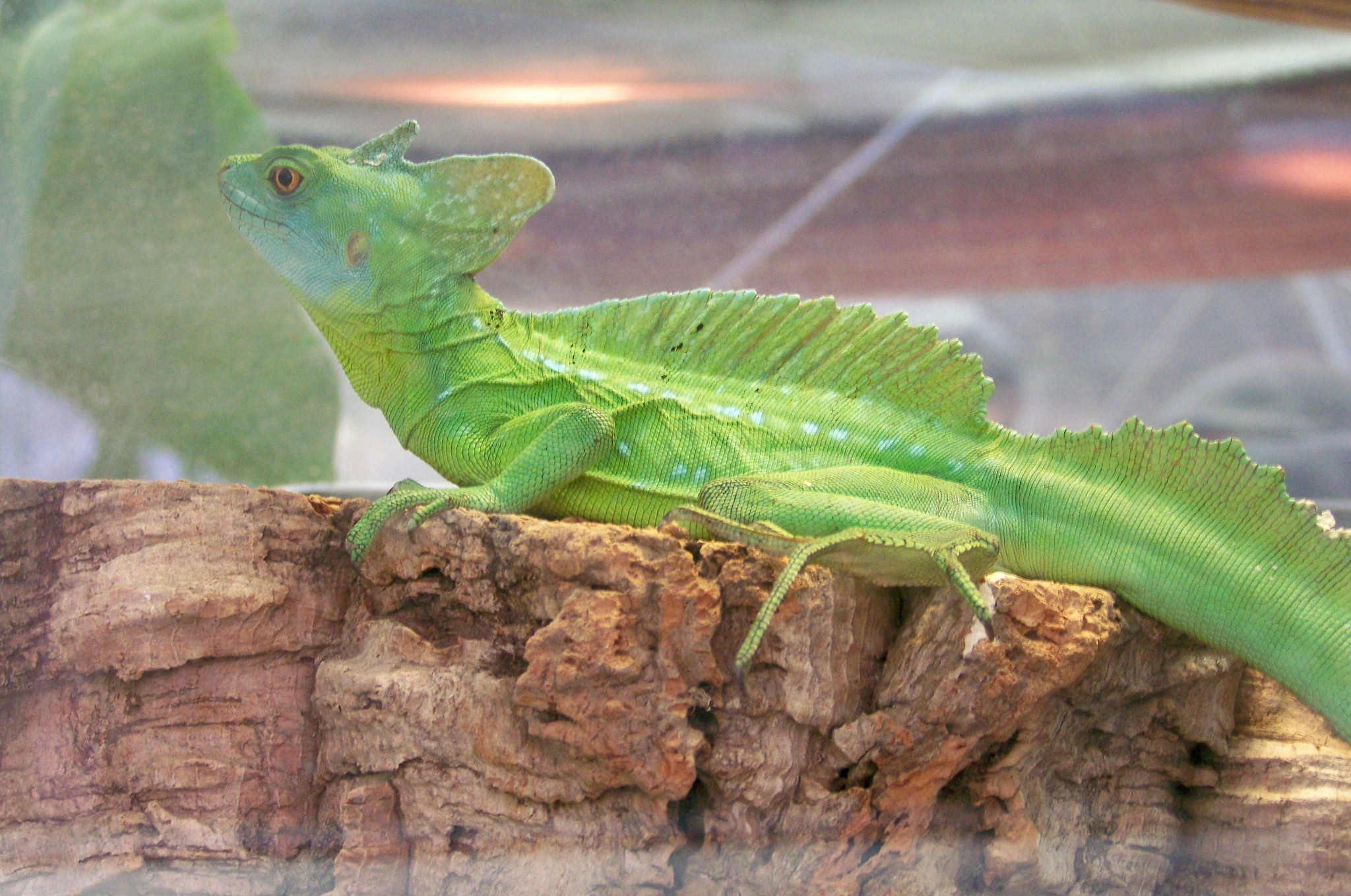 Part of the Biodome exhibit at the California Academy of Science in San Francisco, California.